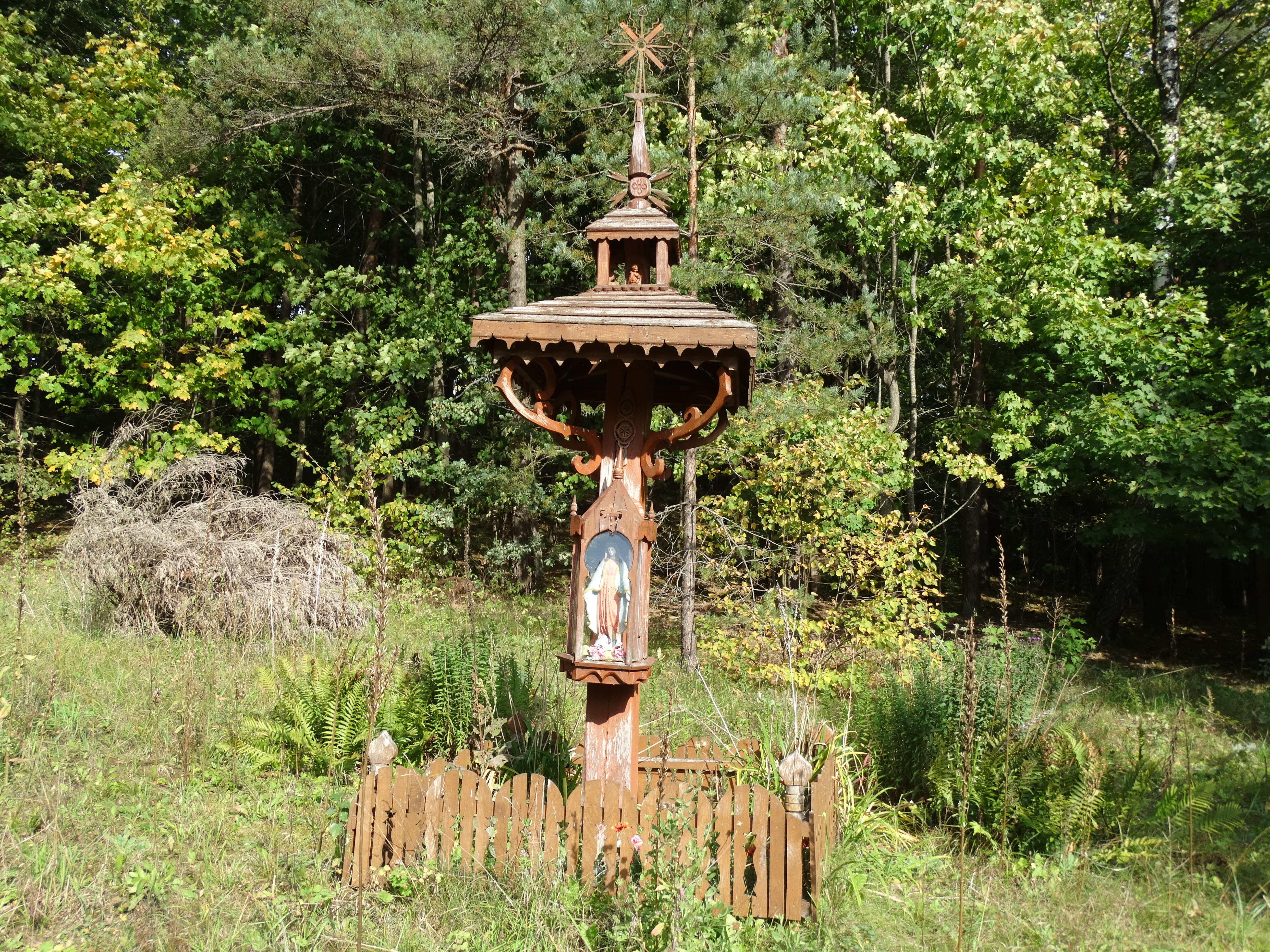 Naujasodis, Prienai district, Lithuania